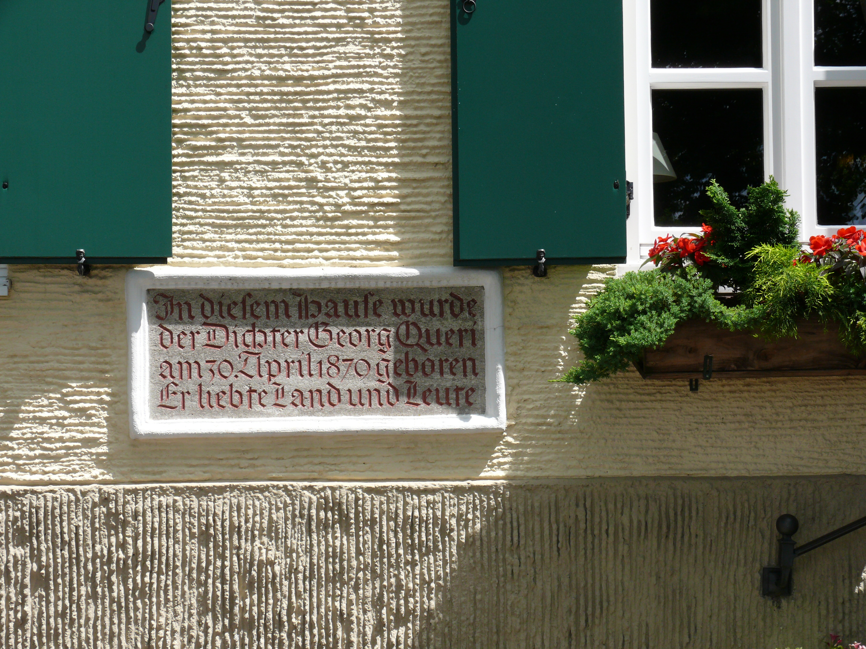 Inscription on house of birth of Georg Queri in Andechs, Germany